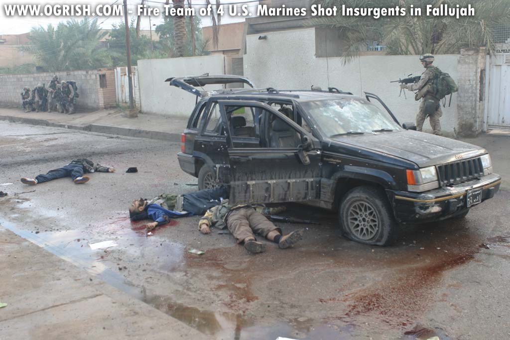 U.S. Marines of RCT-7 and the Emergency Response Unit (ERU) of the Iraqi Forces perform offensive operations on November 10, 2004 during Operation Al Fajr. During the search of a mosque, anti-Iraqi forces (AIF) were killed. The mosque was used to treat AIF. Weapons caches were found in government buildings along with suicide bomber's vest and dragunov sniper rifles.